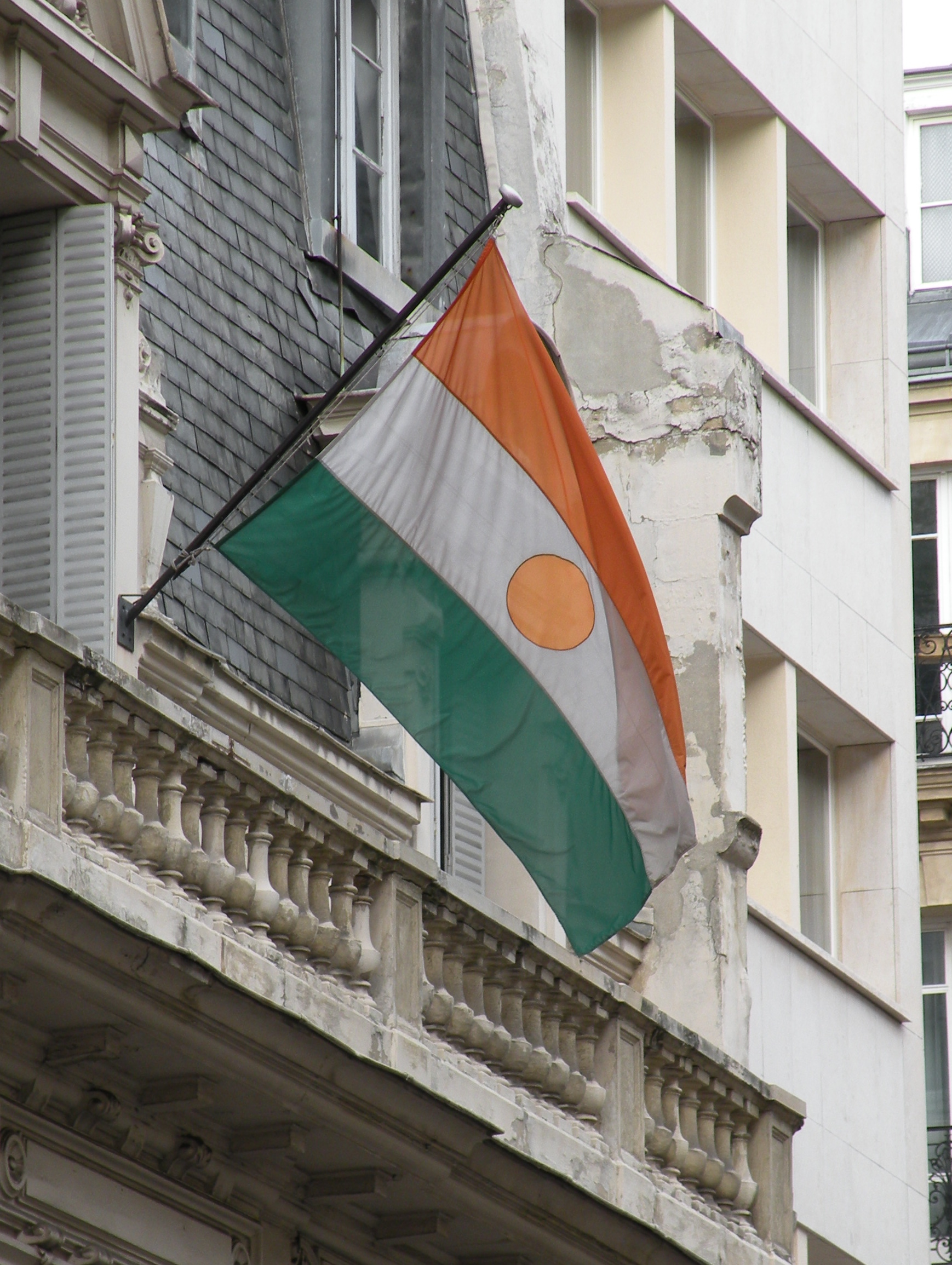 Flag of Niger on the embassy in Paris.